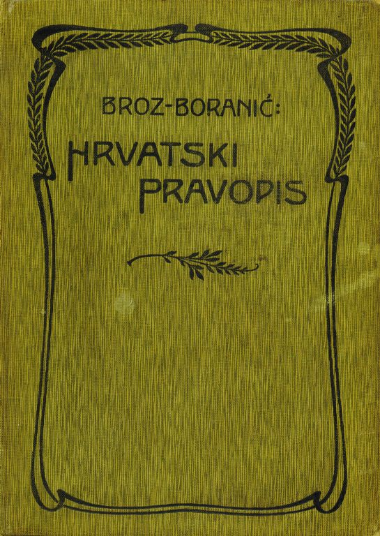 Cover of a Croatian Ortography book from 1911